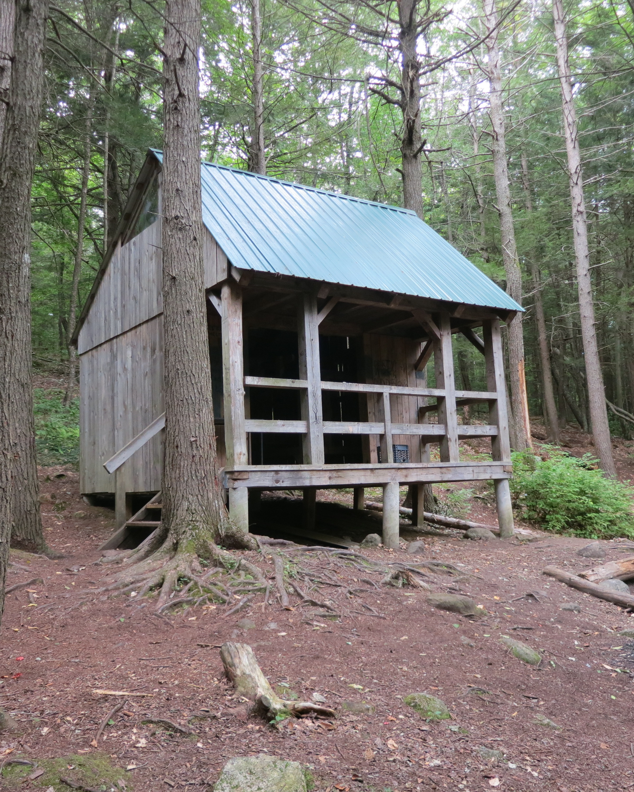 Hiker Shelter near Royalston Falls